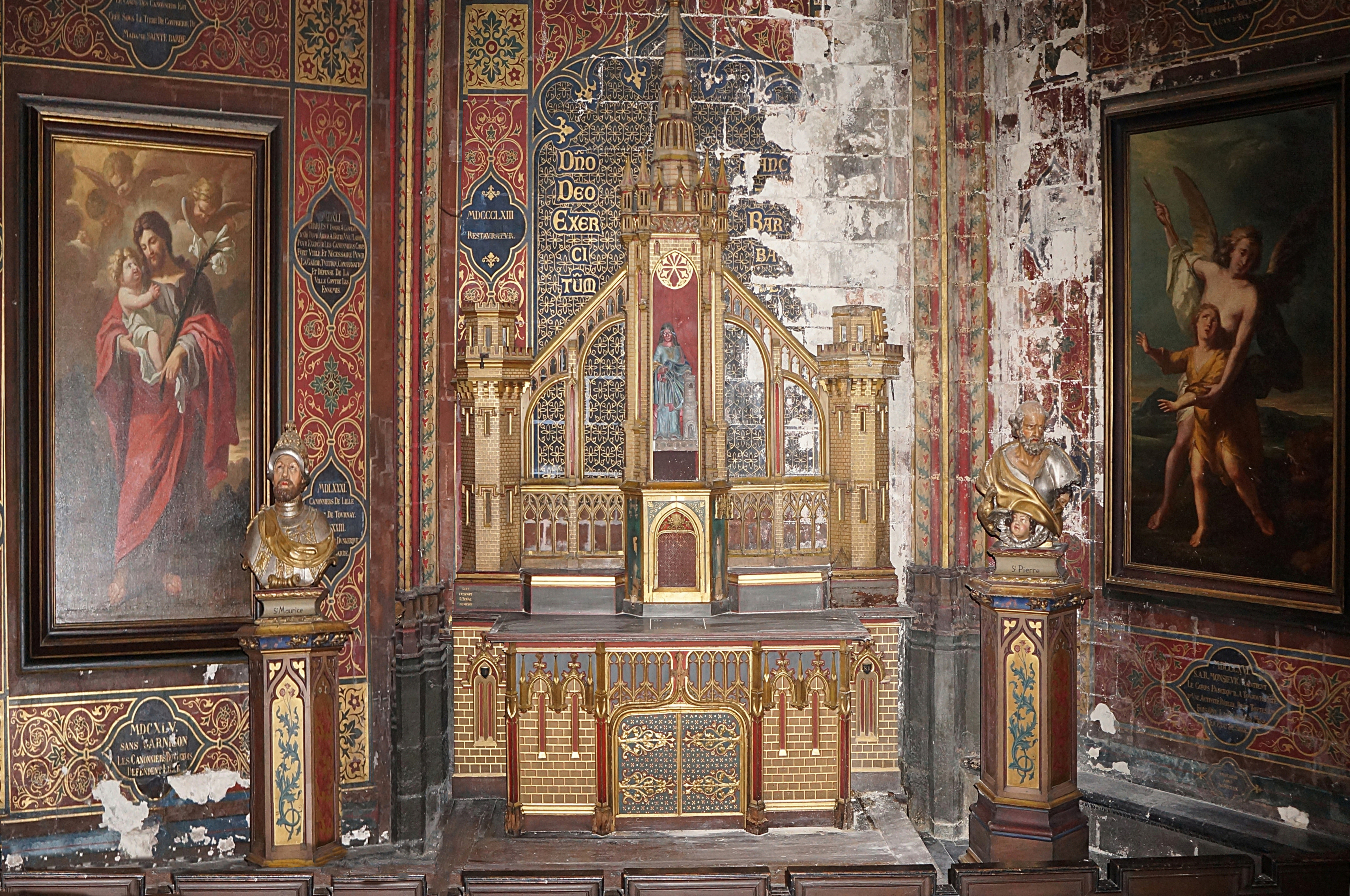 Bedside the church (hallekerque) Saint Maurice Sainte-Barbe's Altar.- Buisine-Rigot Charles (sculptor) Table left: Saint Joseph with the Child Jesus Table right: The Guardian Angel of Arnould de Vuez Lille.- Nord (France) Arnould de Vuez (1642–1724) DescriptionFrench painterstudent of Frère LucDate of birth/death 10 March 1642 3 April 1724 Location of birth/death Saint-Omer LilleWork location Saint-Omer, Paris, Italy, Lille (from 1694 date QS:P,+1694-00-00T00:00:00Z/7,P580,+1694-00-00T00:00:00Z/9)Authority control : Q781910 VIAF: 24901912 ISNI: 0000 0000 6661 2043 ULAN: 500051632 LCCN: nr2003020521 GND: 135697395 WorldCat creator QS:P170,Q781910 It is indexed in the Base Mérimée, a database of architectural heritage maintained by the French Ministry of Culture, under the references IA59001049 and PA00107582 .